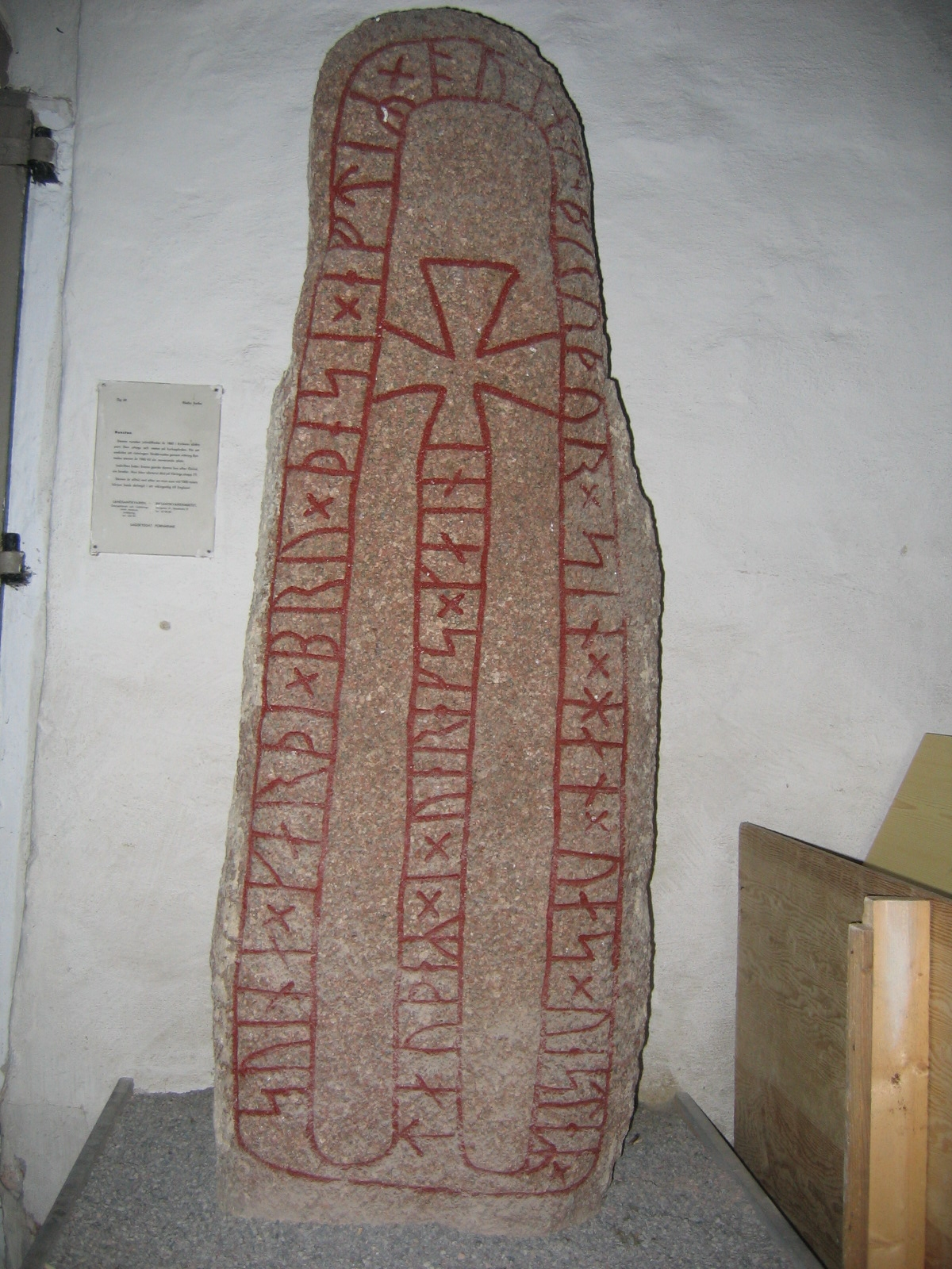 Runestone Ög 68 in Ekeby church, Boxholm municipality, Östergötland.